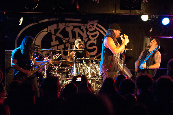 Adrenaline Mob; from left to right, John Moyer, Mike Portnoy, Russell Allen and Mike Orlando